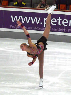 Arina Martinova during her free skate at the 2007 Nebelhorn Trophy.